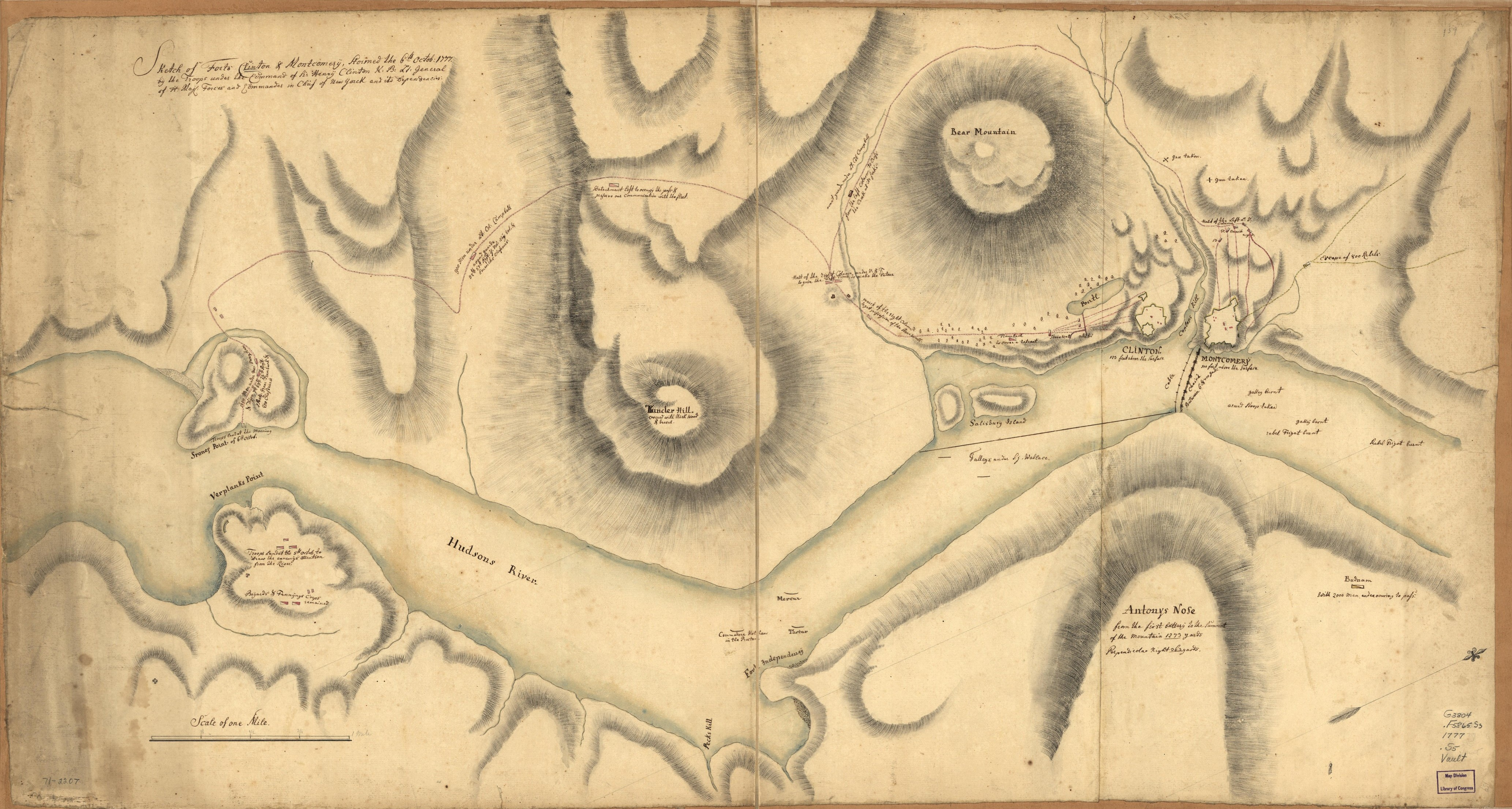 This is a map depicting the 1777 Battle of Forts Clinton and Montgomery, showing military movements. Drawn by a British military engineer.